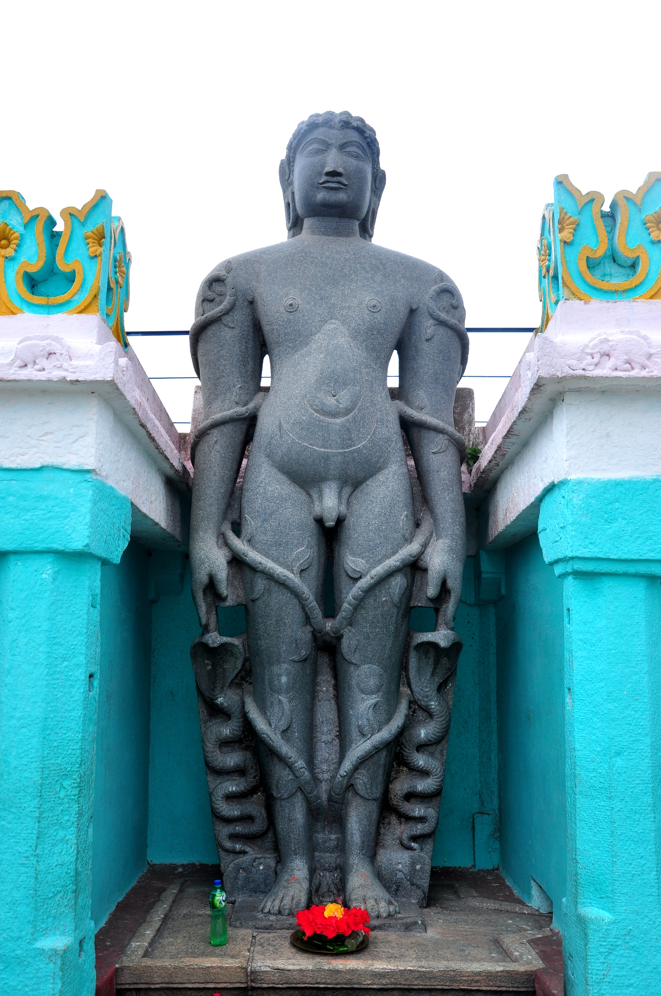 The Temples and the Gomatesvara figure at Gomatesvara Hill